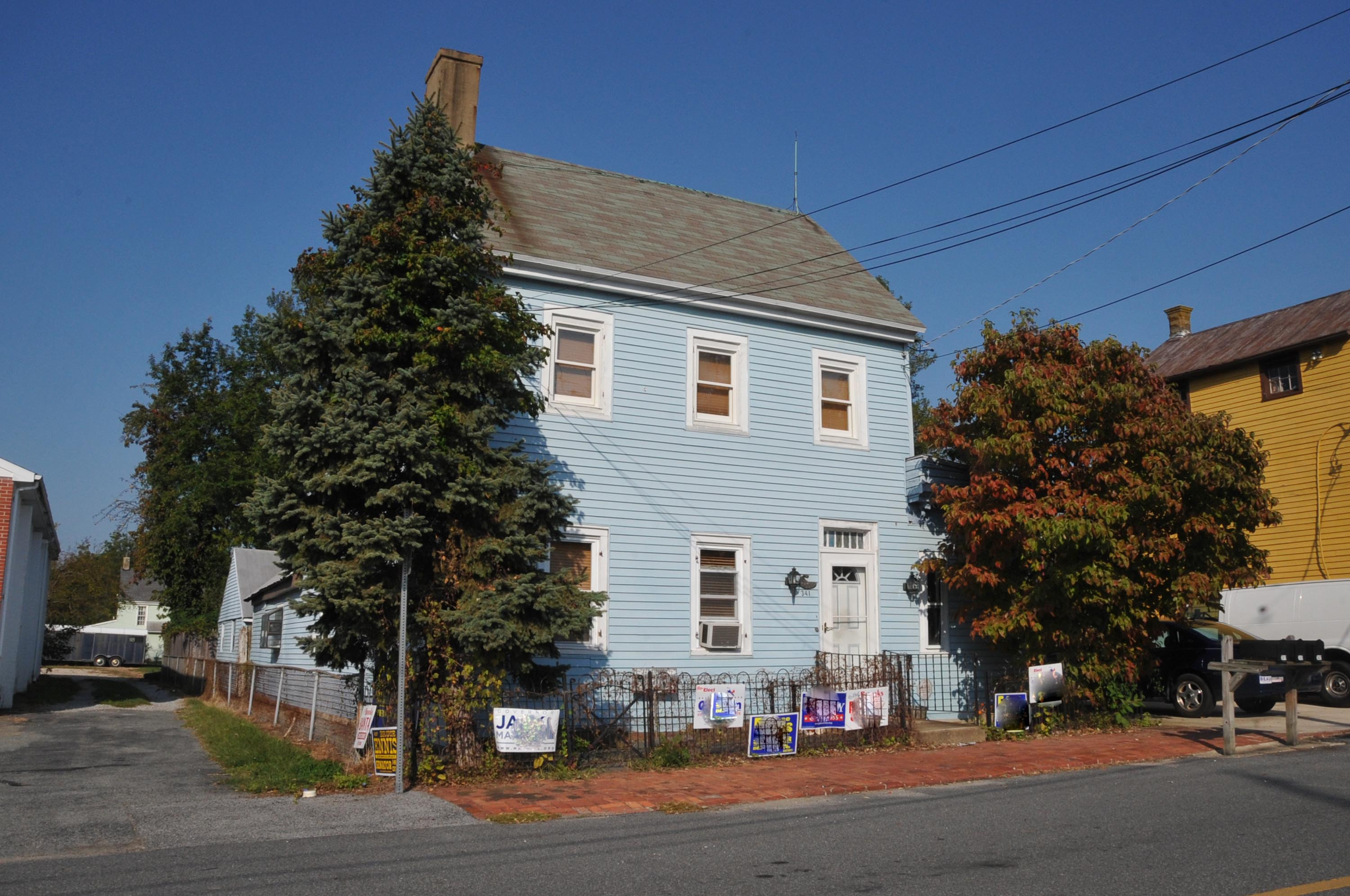 Rawley House MID 1800’S; ON MAIN STREET NEAR FRONT AND LOMBARD STREETS